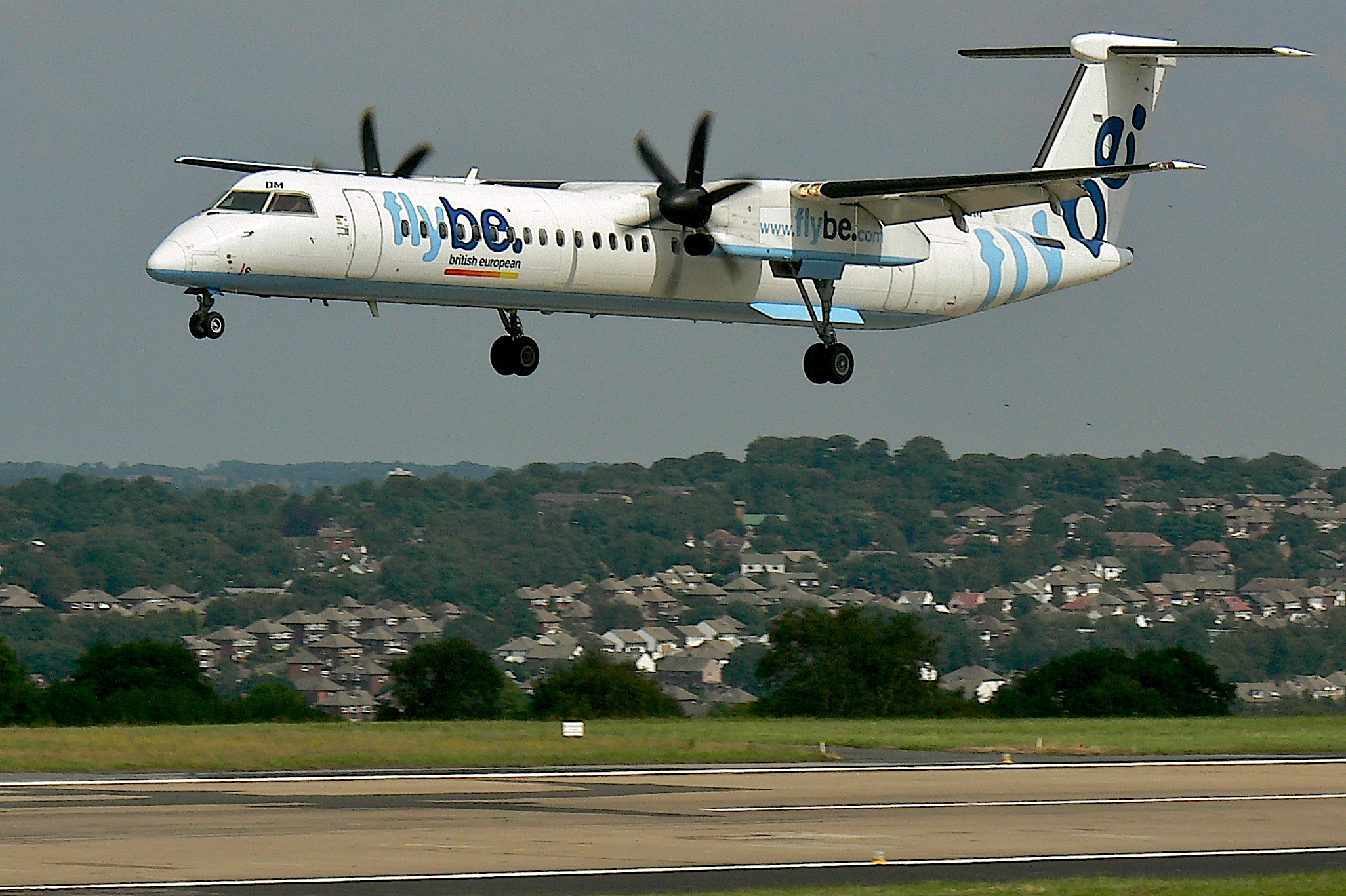 flybe Bombardier Dash 8 landing at Leeds Bradford Airport, UK